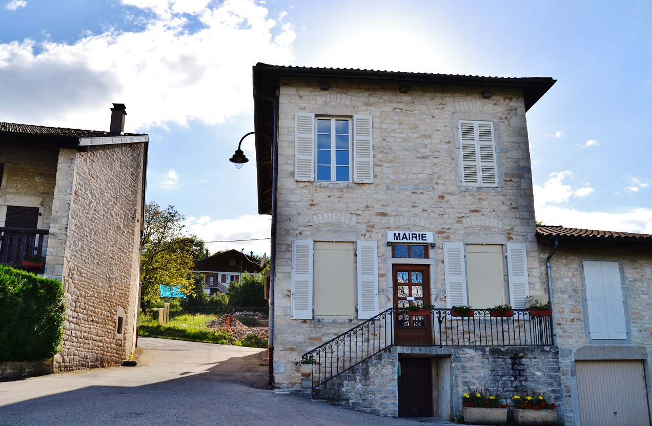 La Mairie